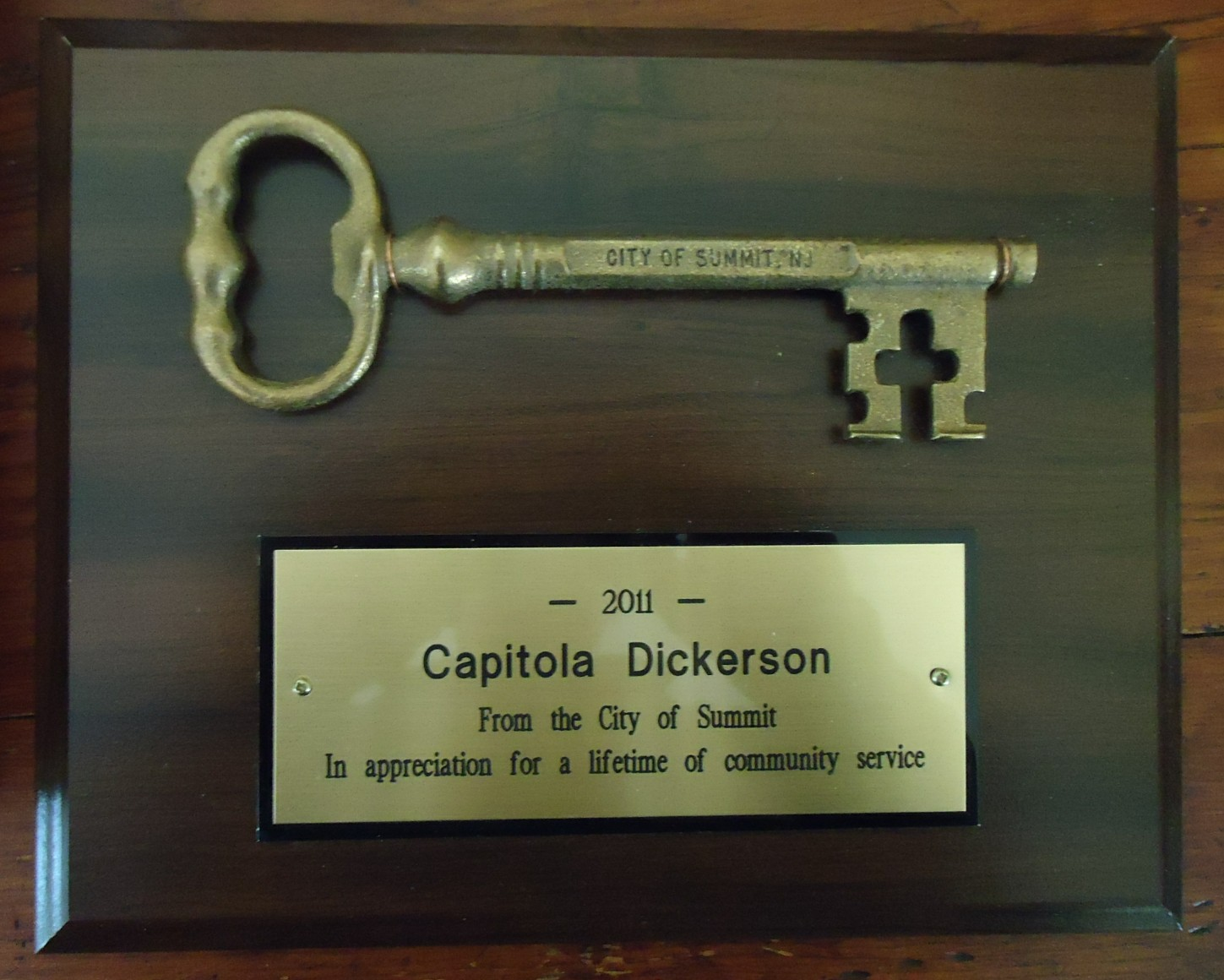 The city of Summit, New Jersey presented this "key to the city" to resident Capitola Dickerson.